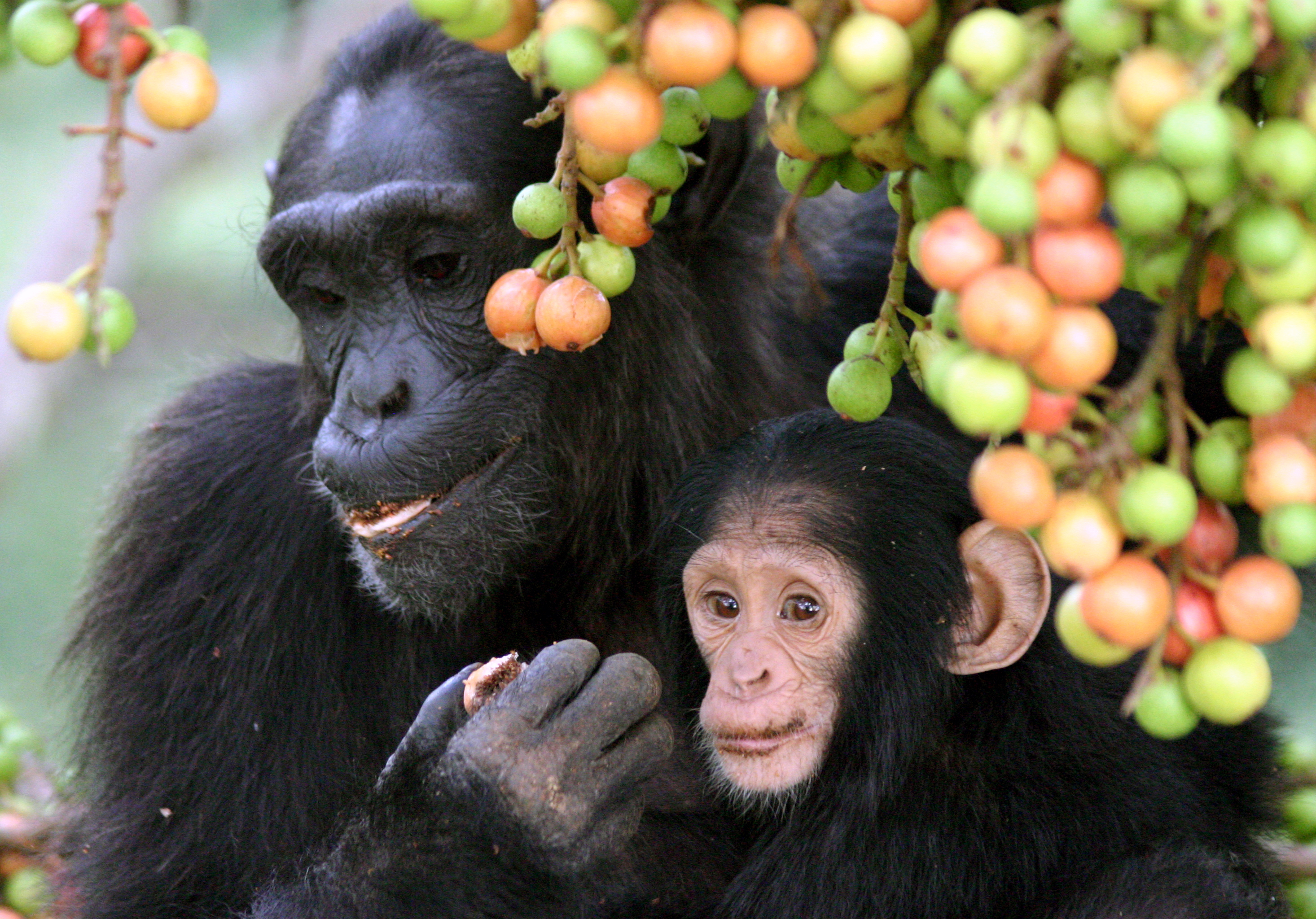 “Adult female-infant wild chimpanzees feeding on Ficus sur fruits in Kibale National Park, Uganda. The infant was one-year old, and he was still breast feeding. However, he has been seen to taste the flesh of red (very ripe) fruits. The picture was taken during my postdoctoral fellowship at Harvard University, during which I studied the relationship between contest competition and the nutritional quality of wild fruits. I made the very first detailed study on chimpanzees’ nutritional ecology with descriptions of behaviors never seen before. Most of my observations were collected directly in the canopy with wild chimpanzees all around. Needless to say that this was the project of my life. Picture taken at 25 m above the ground.”